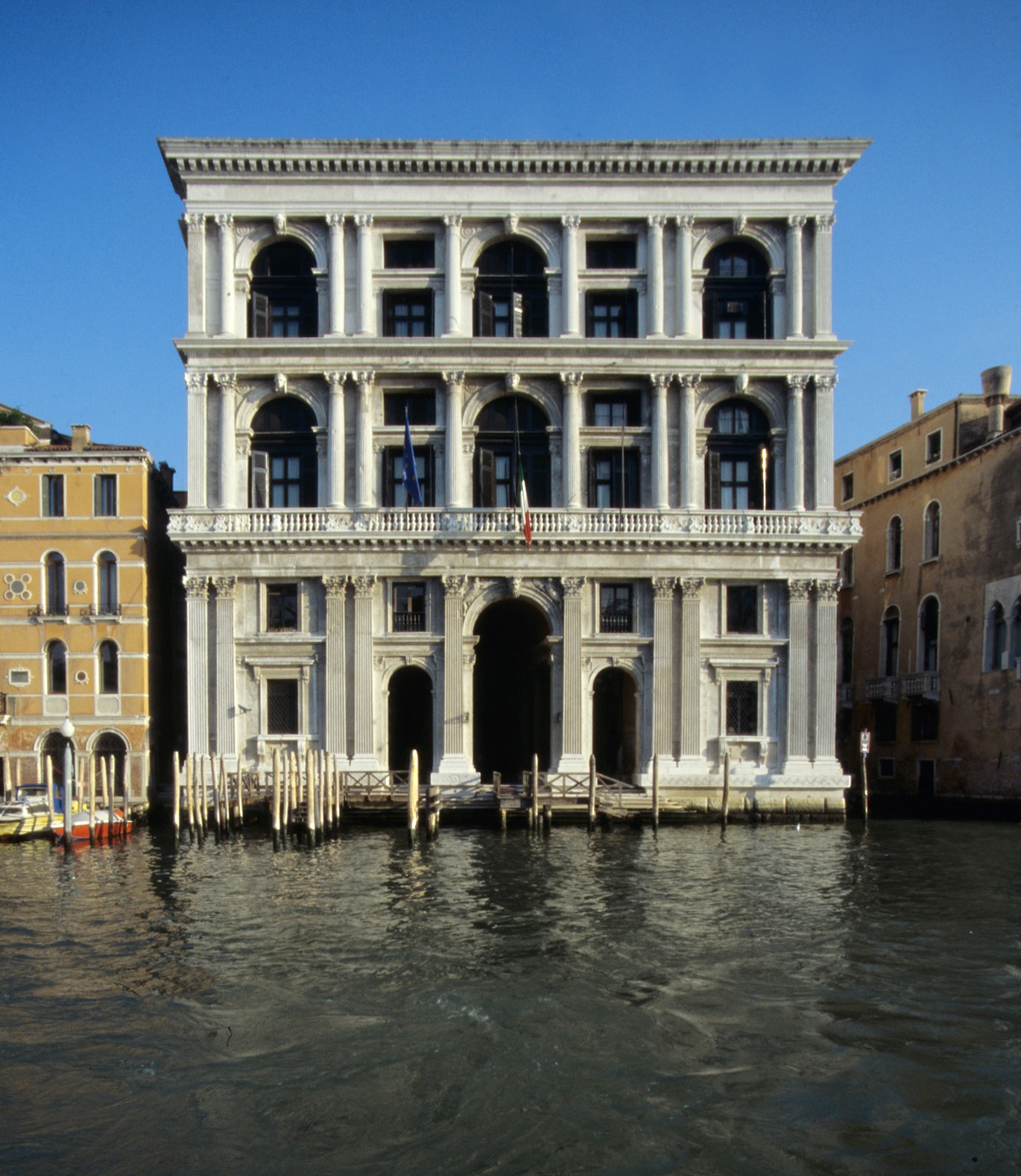 Palazzo Grimani di San Luca in Venice, along the Canal Grande.